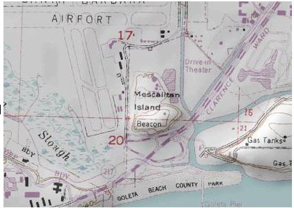 Topographic Image of former Mescalitan Island — Santa Barbara County, California. It was a mesalike island located about 10 miles west of Santa Barbara near the outlet of the Goleta Slough into the Pacific Ocean. The island is where the Chumash Indian village Helo was centered. The island, leveled in 1941, is currently the location of the Goleta Sanitary Sewage Treatment Plant.